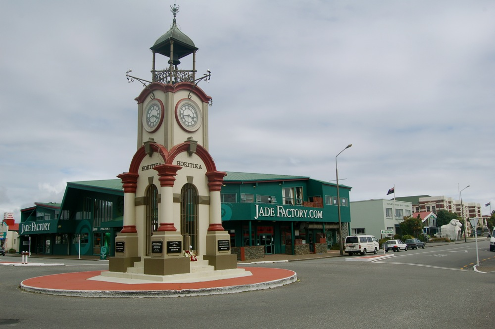 Clock tower in the centre of Hokitika. Also, there is a jade store on the far side as Hokitika is the jade capital of New Zealand.